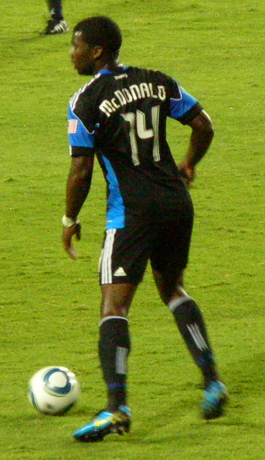 San Jose Earthquakes midfielder Brandon McDonald at a home game against the Philadelphia Union. The Earthquakes won 1-0